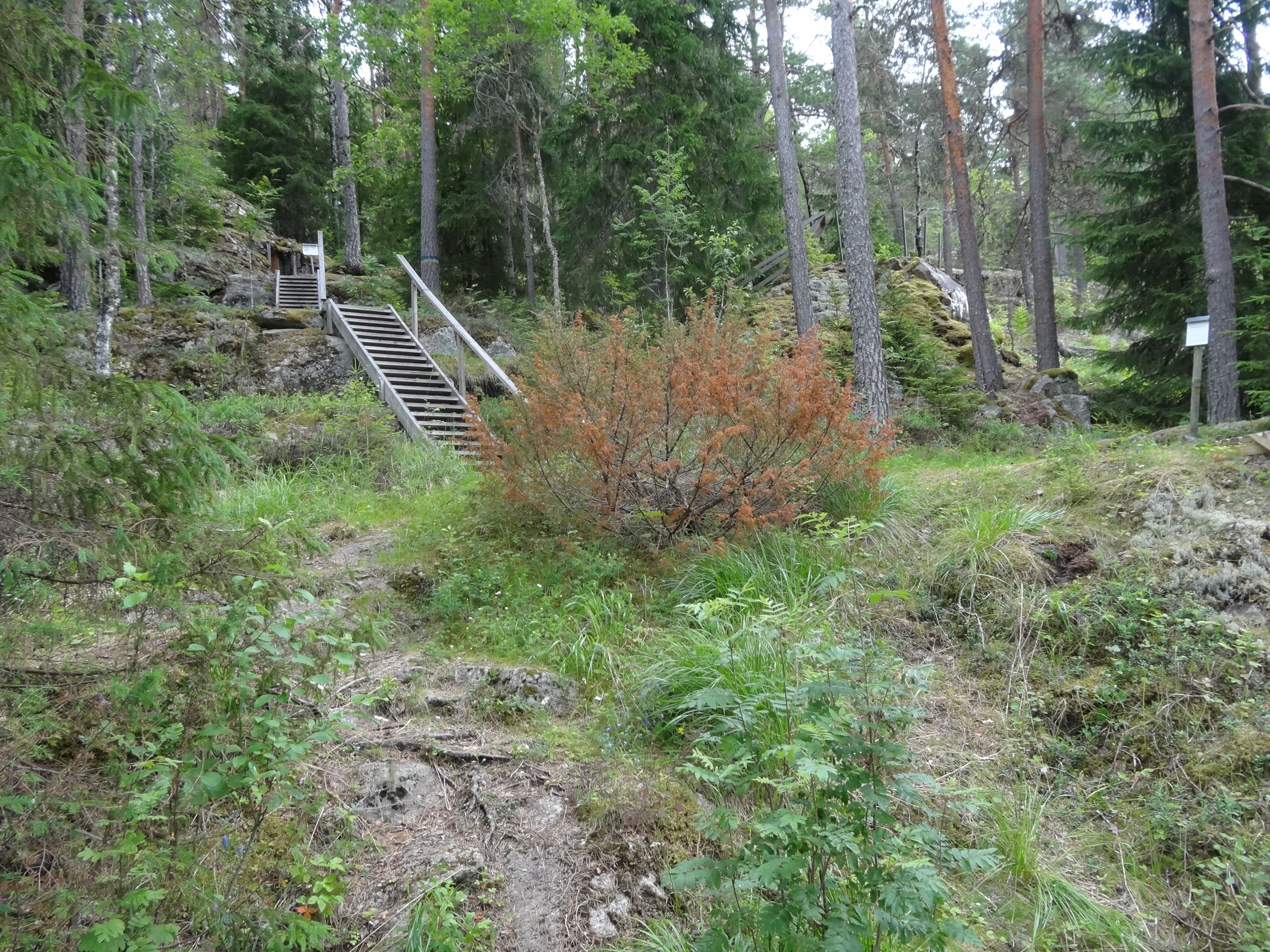 Prepared pits and shelters for machineguns and submachineguns blends in with the mountain terrain.